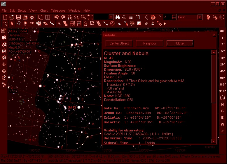 Nightvision